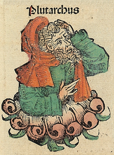 Illustration from the Nuremberg Chronicle